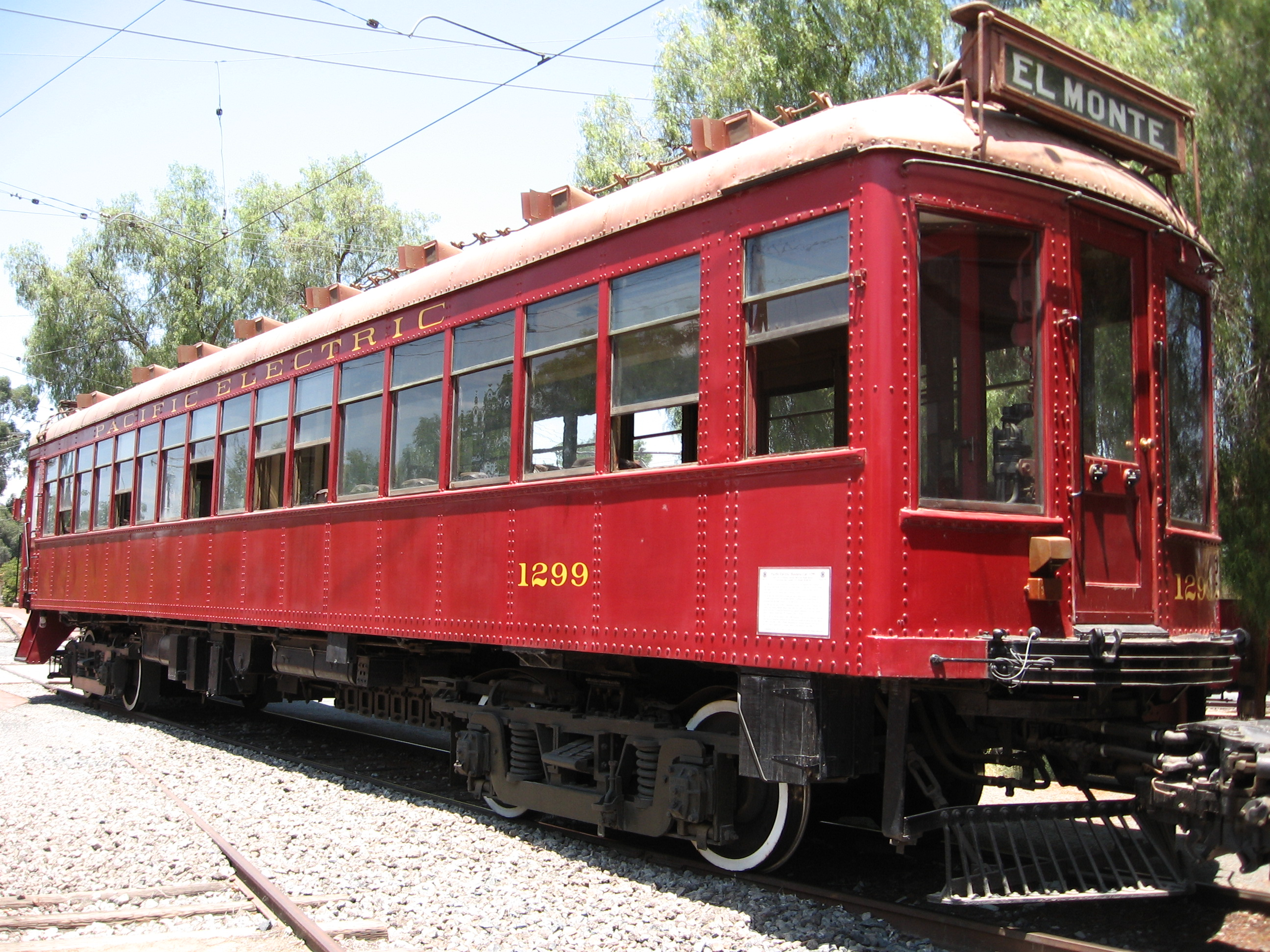 Copied from Image:IMG 4841.JPG: "Pacific Electric 1299 "Business Car"."